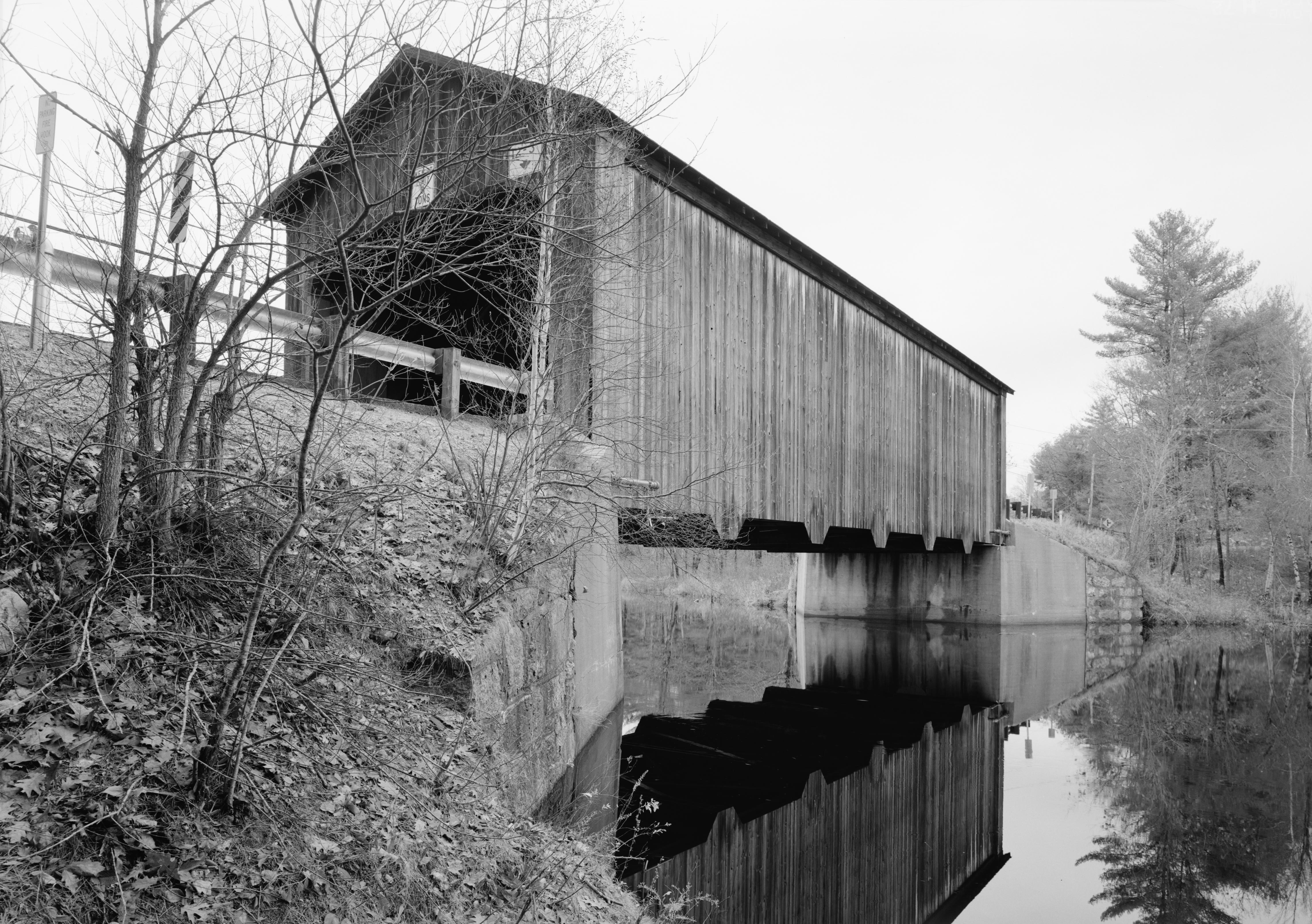 Hancock-Greenfield Bridge, Spanning Contoocook River, Forest Road (formerly O, Hancock (Hillsborough County, New Hampshire)